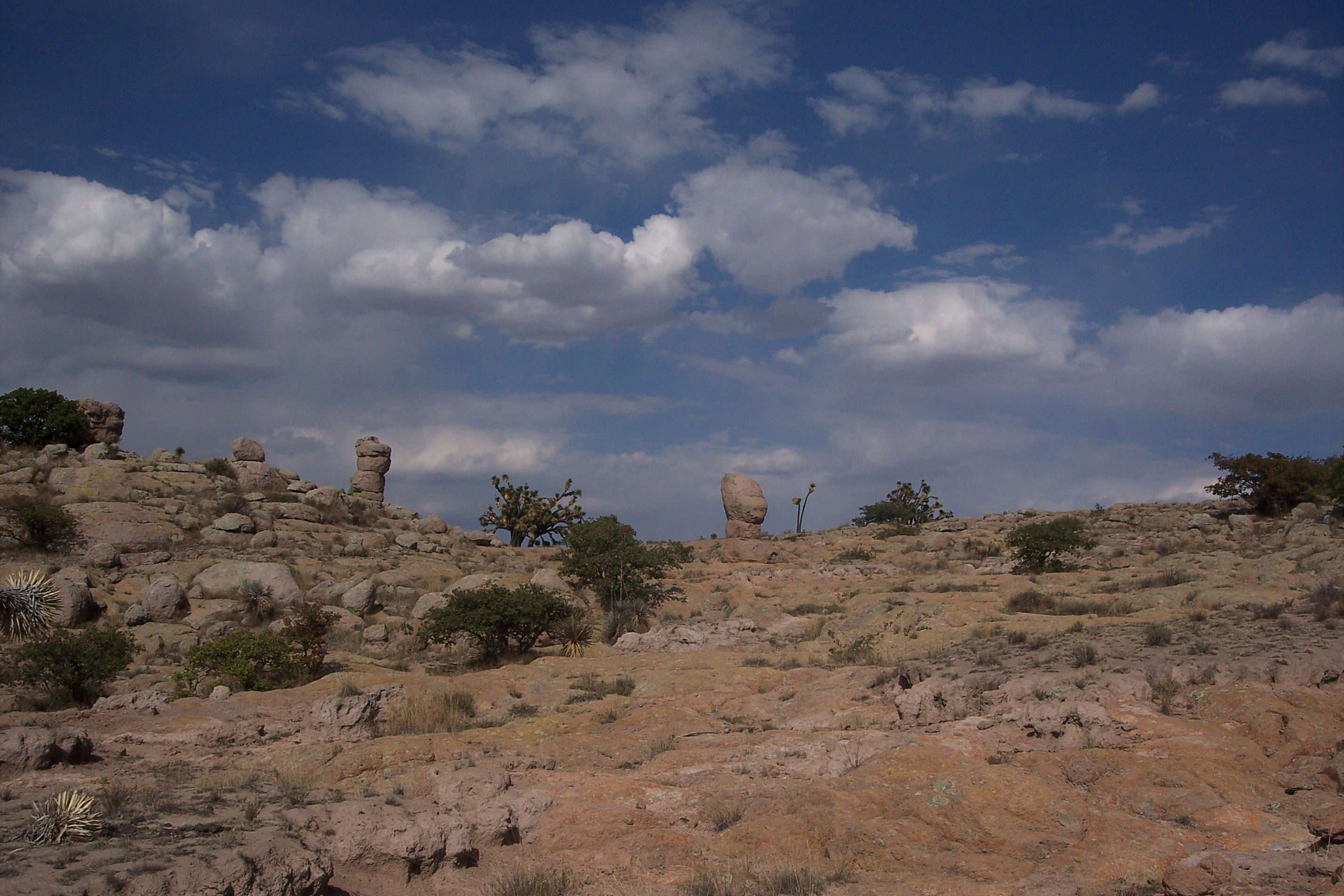 Rocas cuidando el desierto. See where this picture was taken xD